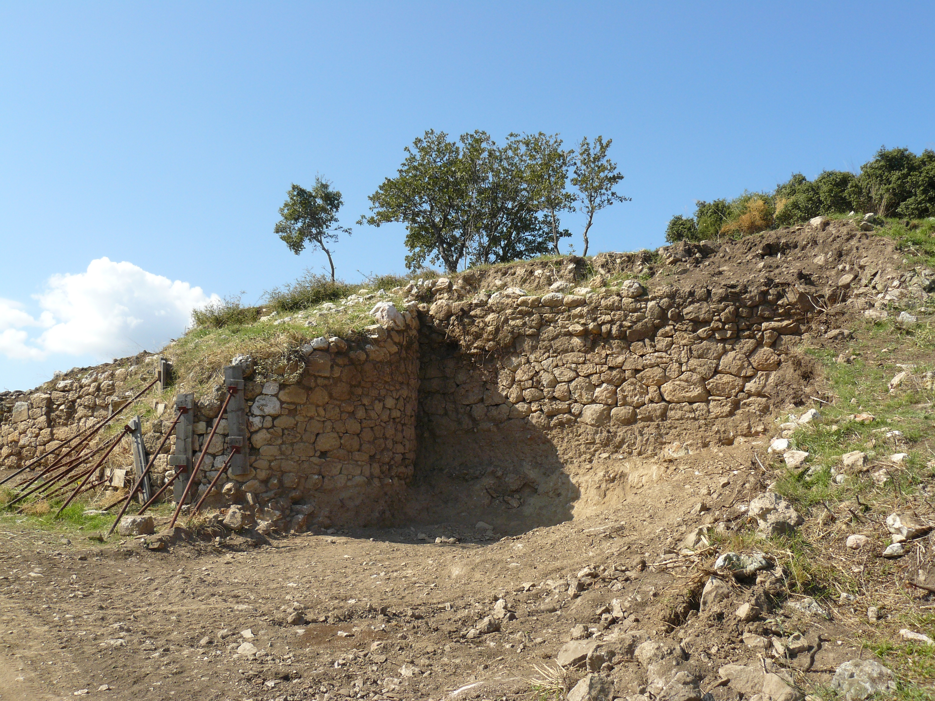 Wall of Aphidna on Kotroni hill, Attica